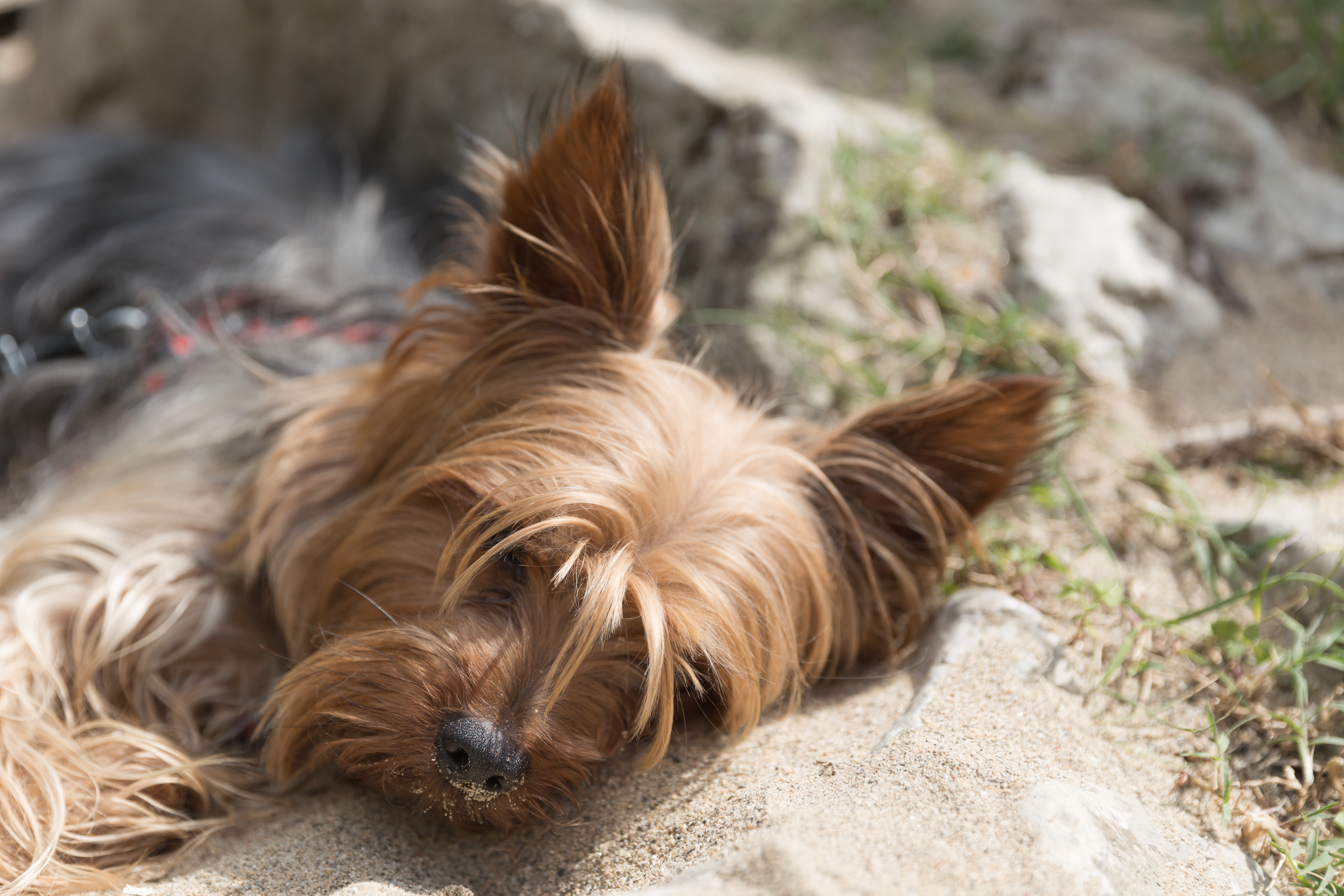 Yorkshire terrier.